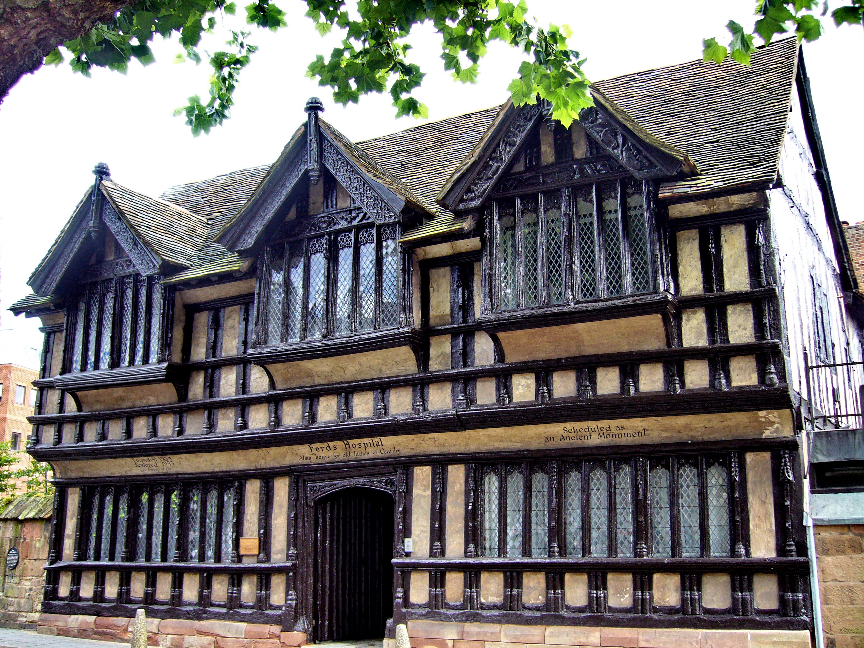 Coventry